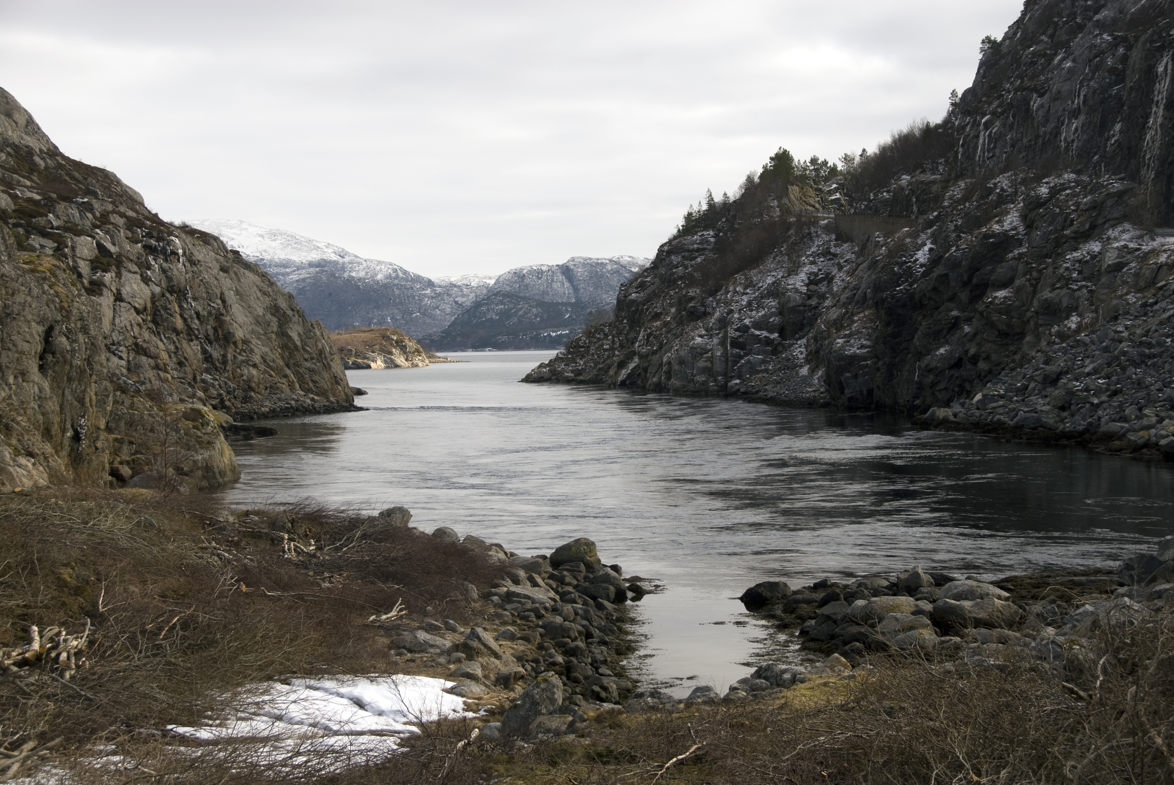 Sound in Flatanger, Norway